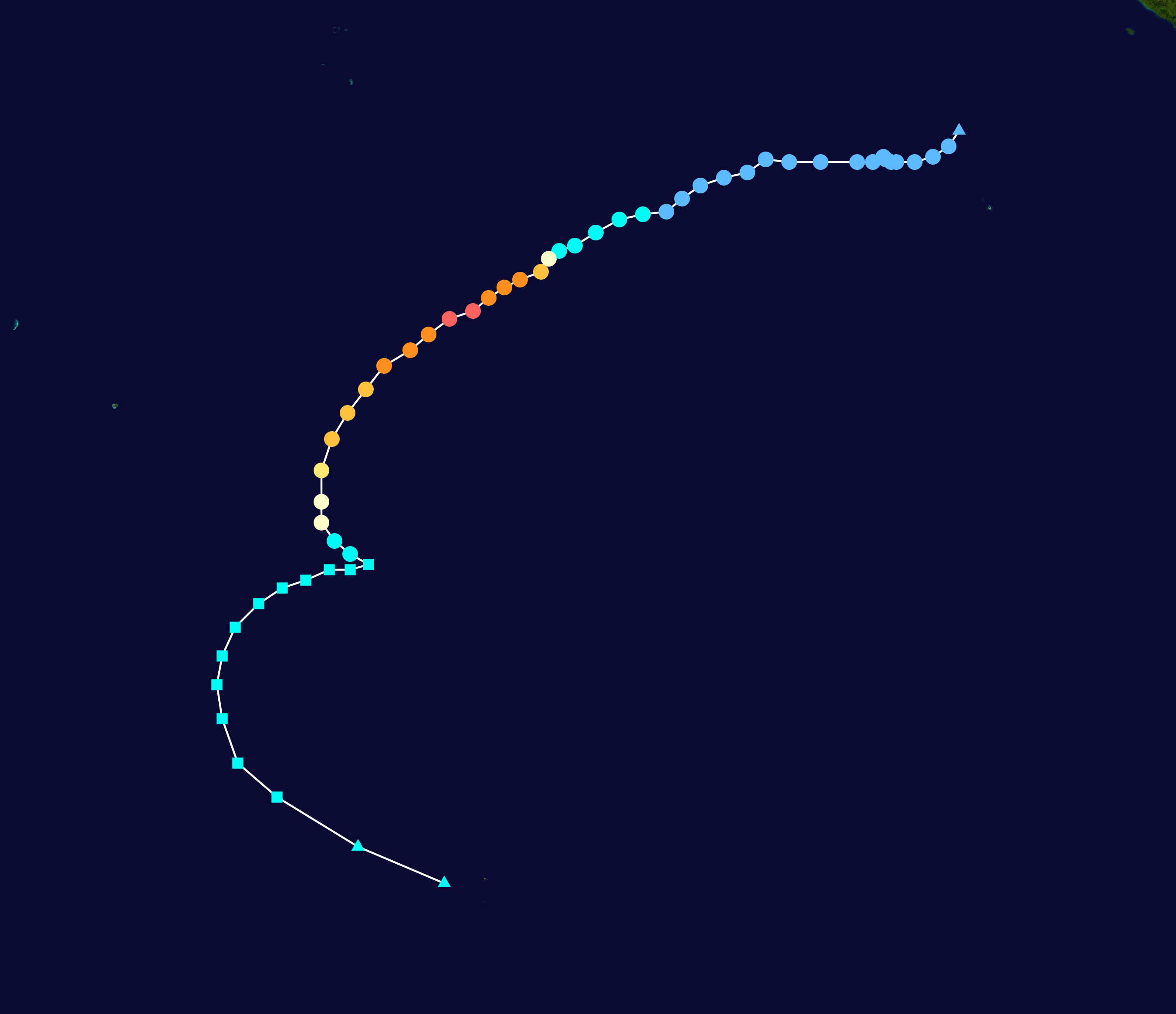 Track map of Very Intense Tropical Cyclone Edzani of the 2009-10 South West Indian Ocean cyclone season and the 2009-10 Australian region cyclone season. The points show the location of the storm at 6-hour intervals. The colour represents the storm's maximum sustained wind speeds as classified in the Saffir–Simpson scale (see below), and the shape of the data points represent the nature of the storm, according to the legend below. Saffir–Simpson scale Tropical depression≤38 mph≤62 km/h Category 3111–129 mph178–208 km/h Tropical storm39–73 mph63–118 km/h Category 4130–156 mph209–251 km/h Category 174–95 mph119–153 km/h Category 5≥157 mph≥252 km/h Category 296–110 mph154–177 km/h Unknown Storm type Tropical cyclone Subtropical cyclone Extratropical cyclone / Remnant low / Tropical disturbance / Monsoon depression